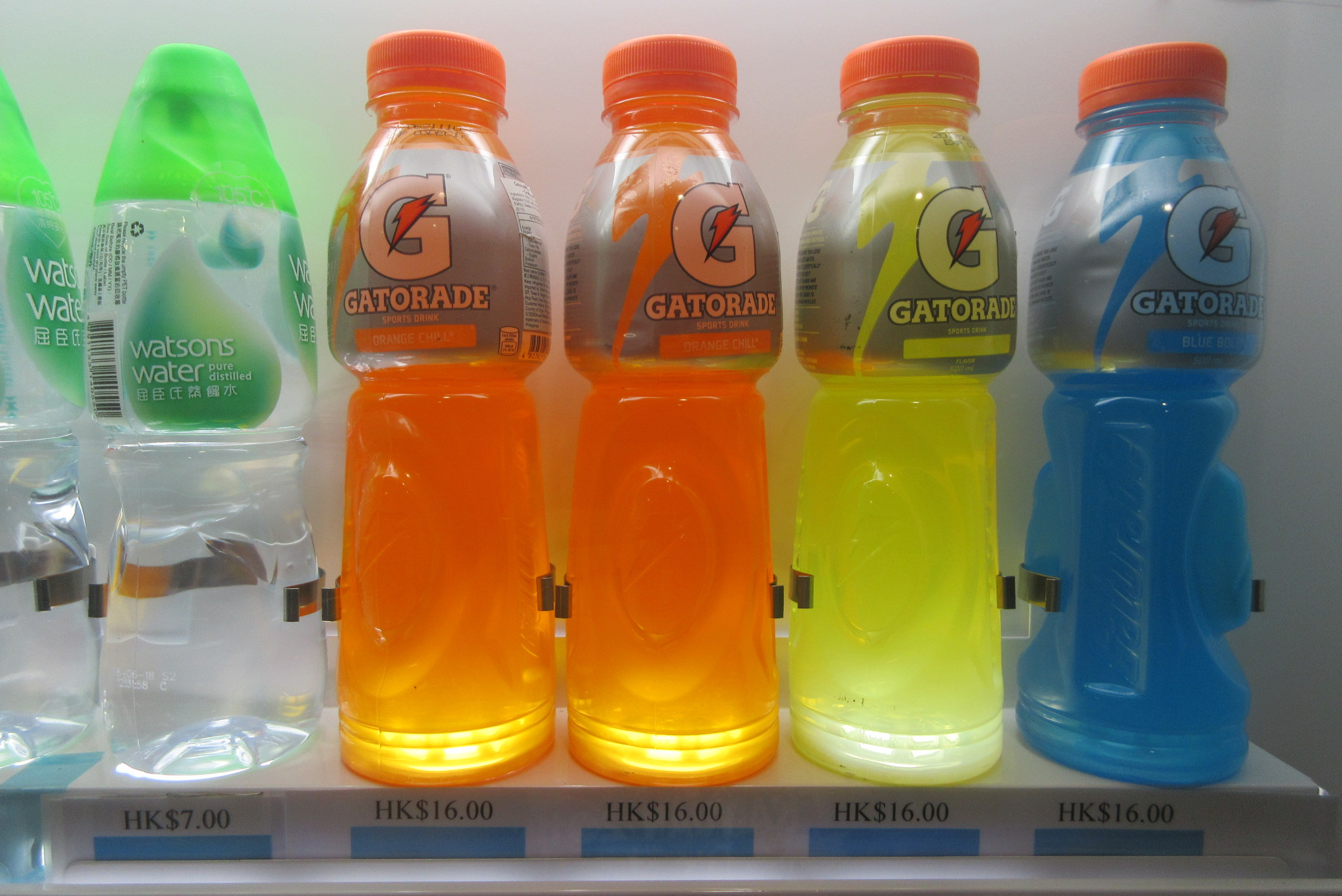 HK Soft drink pre-packed canned product July 2017